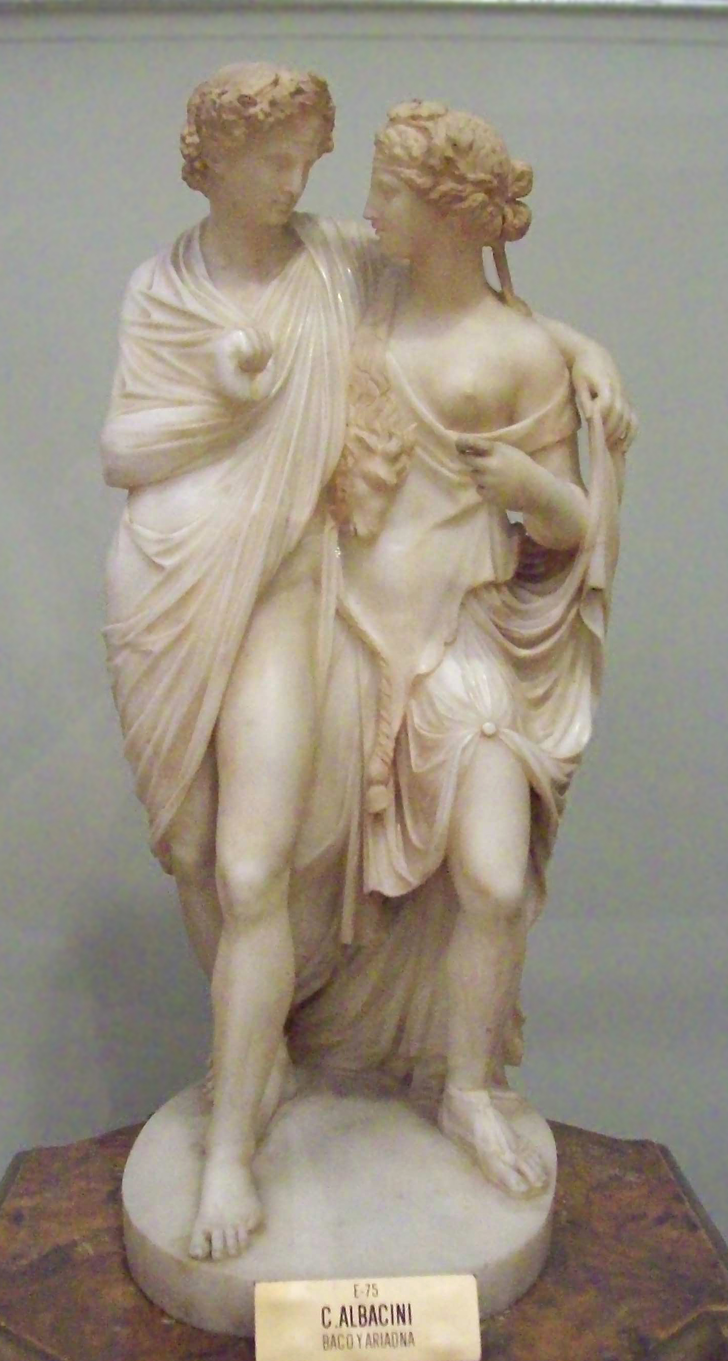 Sculpture of Bacchus and Ariadne.